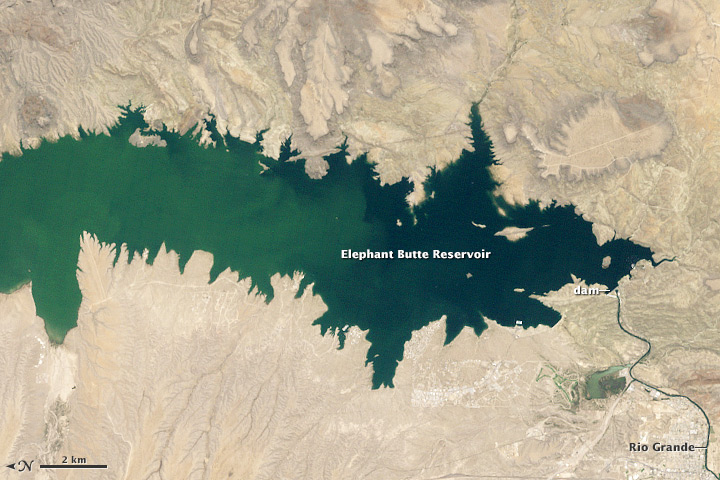 NASA Earth Observatory image of Elephant Butte Reservoir by Jesse Allen and Robert Simmon, using Landsat data from the U.S. Geological Survey.